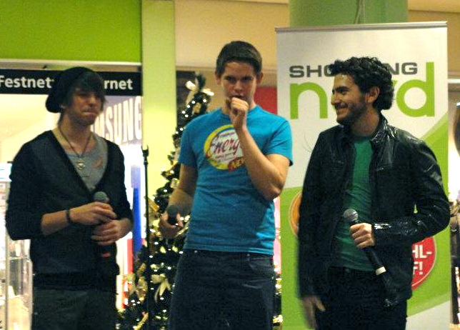 Boyband Kilmokit